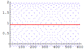 Partial sums of ∑ n = 0 ∞ sin ⁡ n {\displaystyle \sum _{n=0}^{\infty }\sin n} .